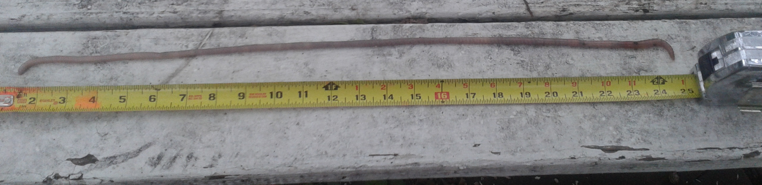 The worm found on May 2016